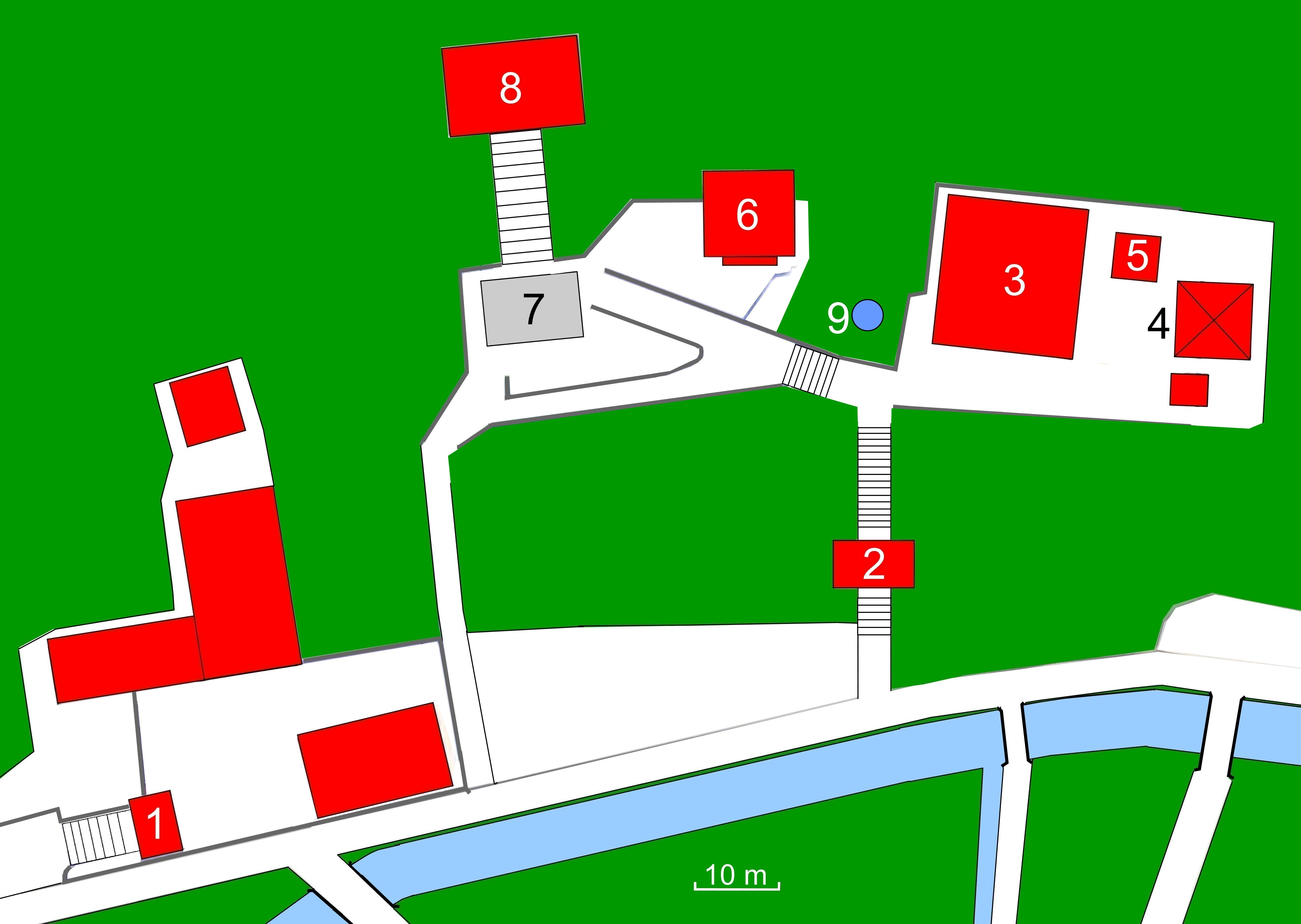 Layout of Gaya-in temple at Miki, Hyôgo prefecture, Japan